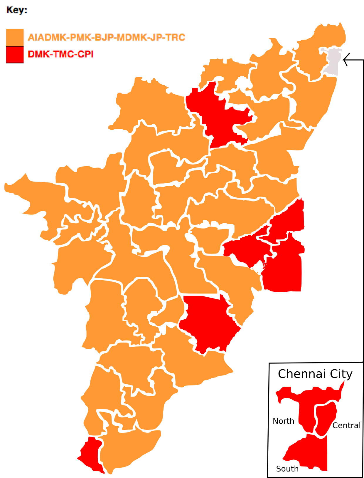 1998 Lok Sabha Election map for Tamil Nadu. Map is based on ECI drawn map. Results are based on ECI website.